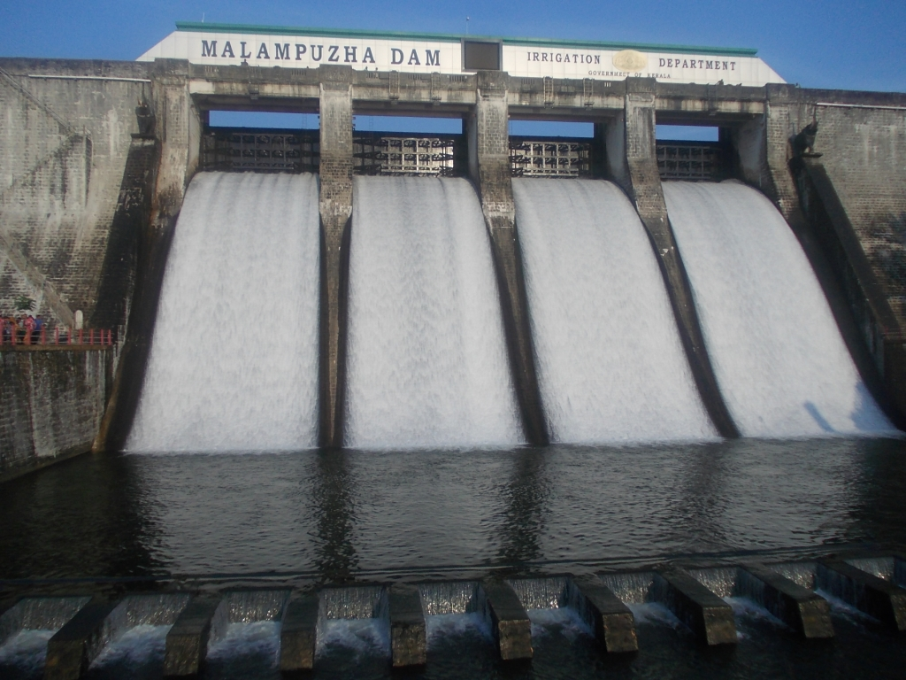 Malampuzha Dam, Kerala, India